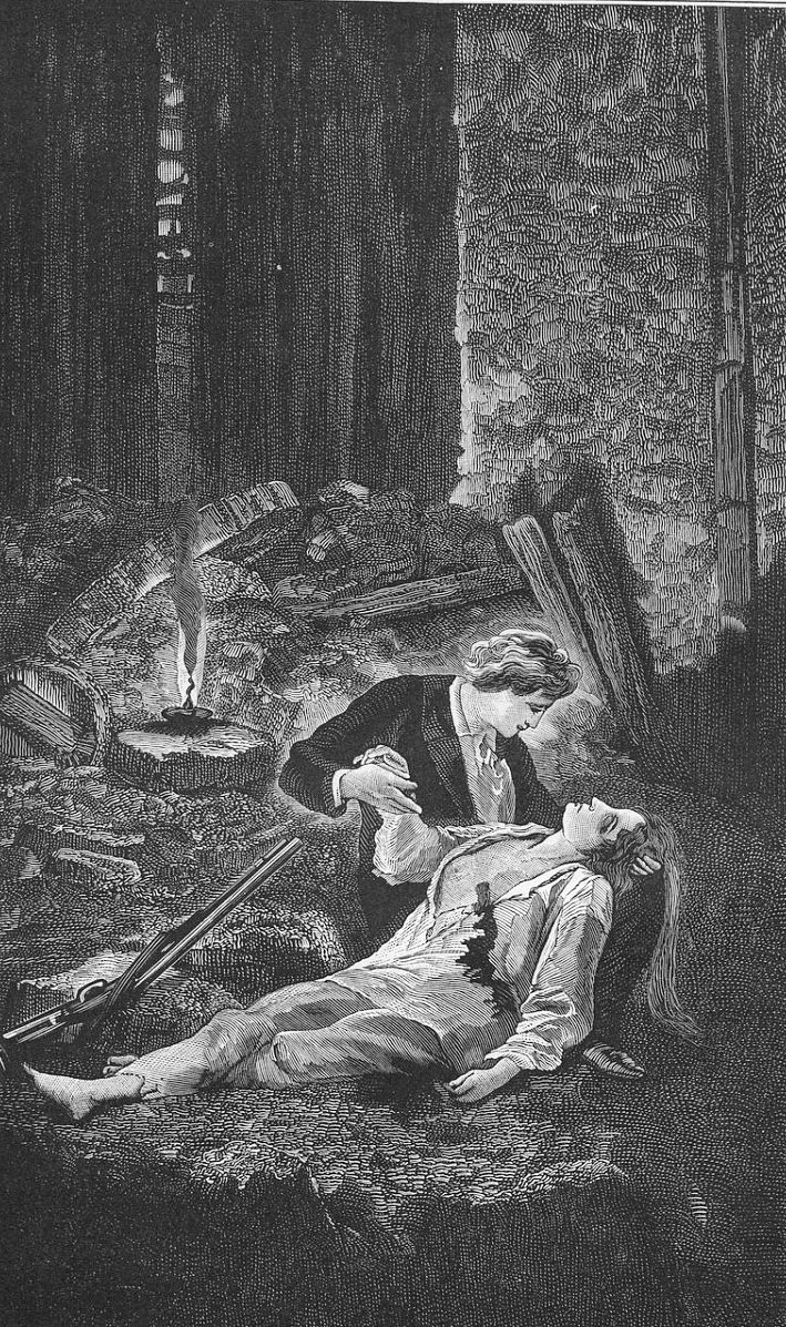 Death of Éponine from Les Miserables.